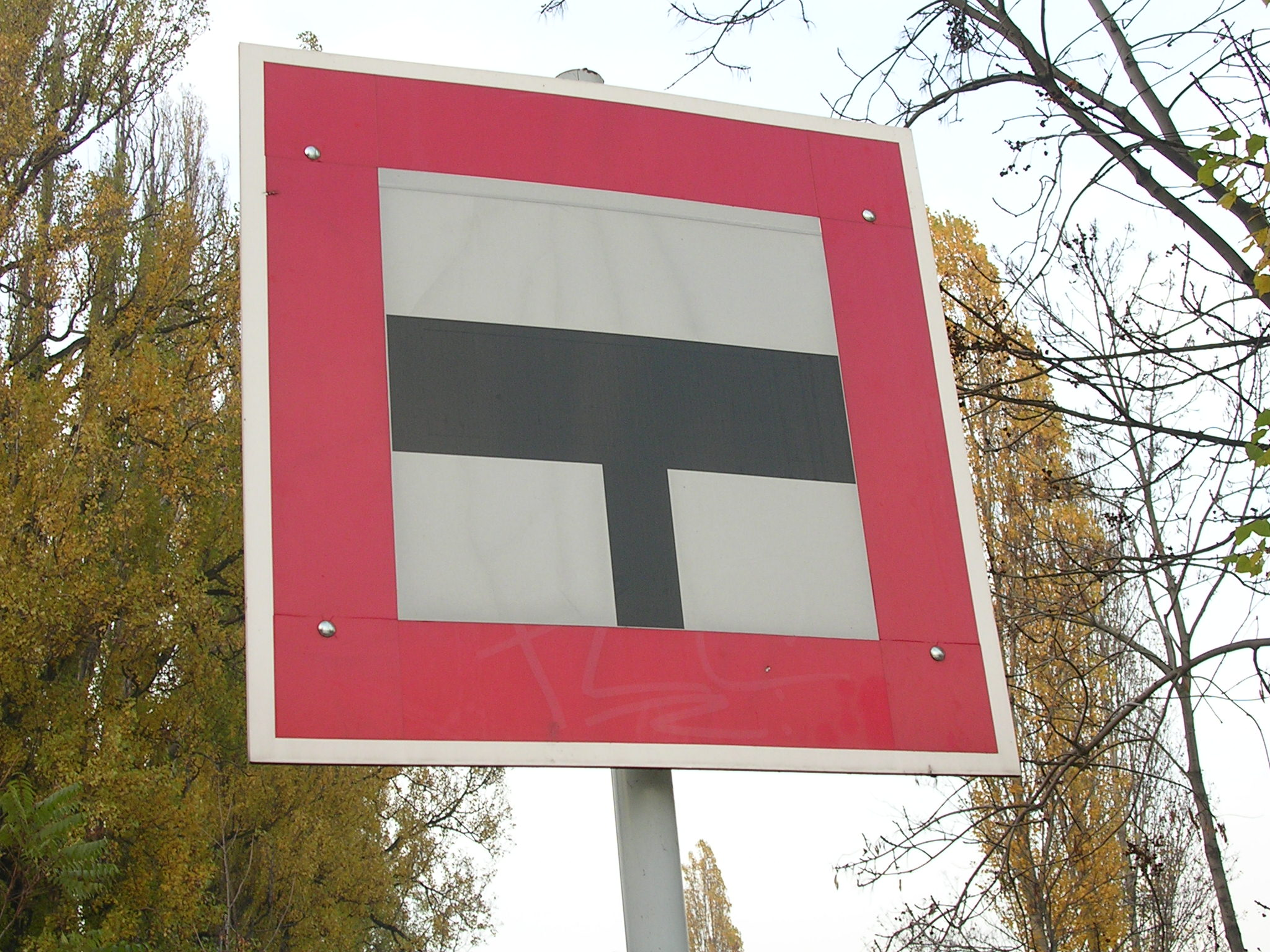 Smíchov, Prague.